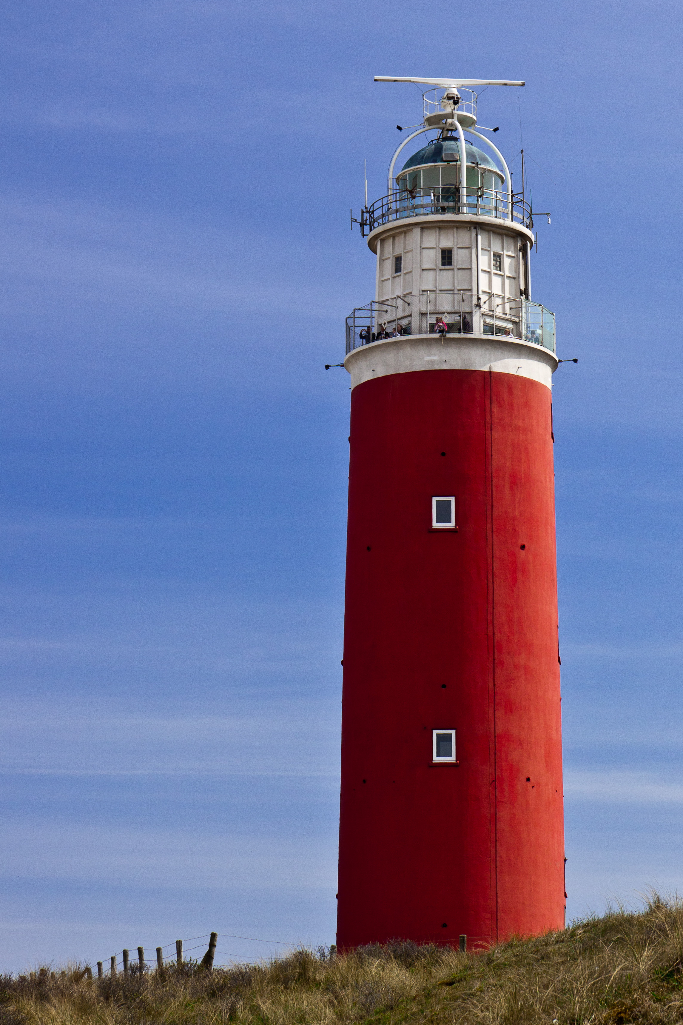 A better picutre of that light house